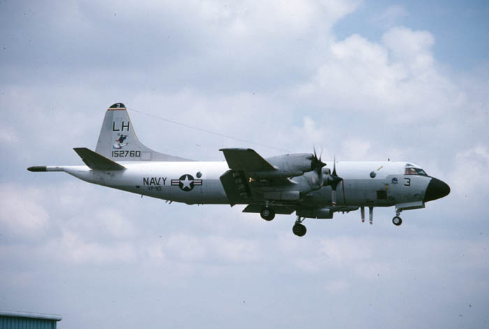 VP-93 (LH 3) P-3B (BuNo 152760) on approach to NRB Dallas, May 1986. Photographed by Keith Snyder. Repository: San Diego Air and Space Museum Archive